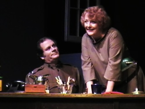 Mark Holt, Thantallon cOmmunity Players production of The Last Flapper